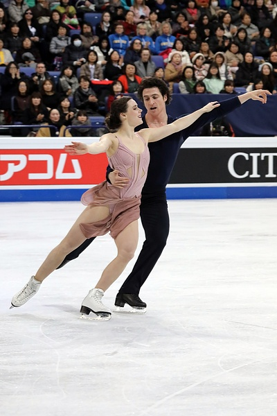 Tessa Virtue and Scott Moir at the 2017 World Championships